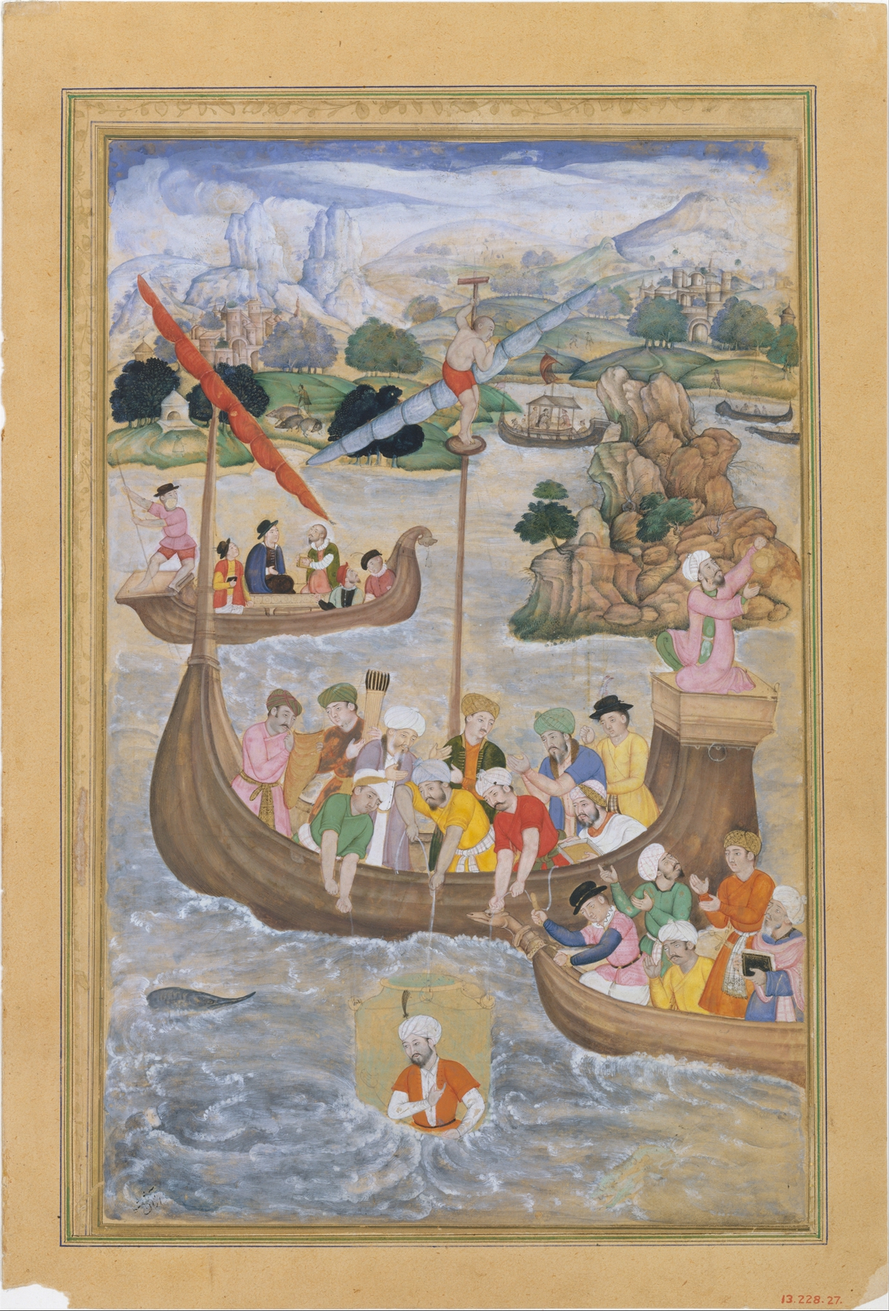 Folio from the Khamsa (Quintet) by Amir Khurau Dihlavi Folio from an illustarted manuscript made for Akbar the Great